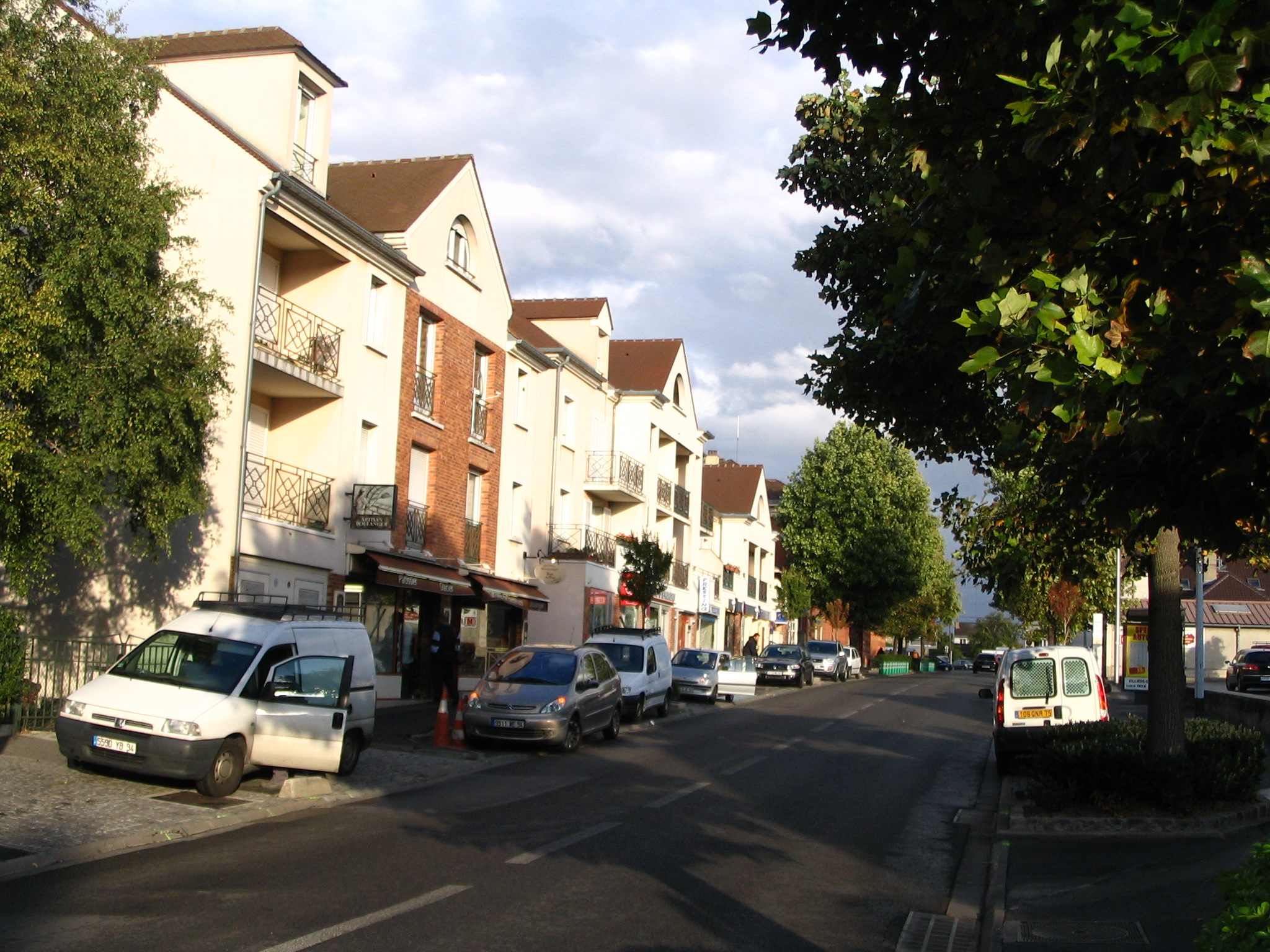 A street in the city center of Chennevières-sur-Marne, Val-de-Marne, France.